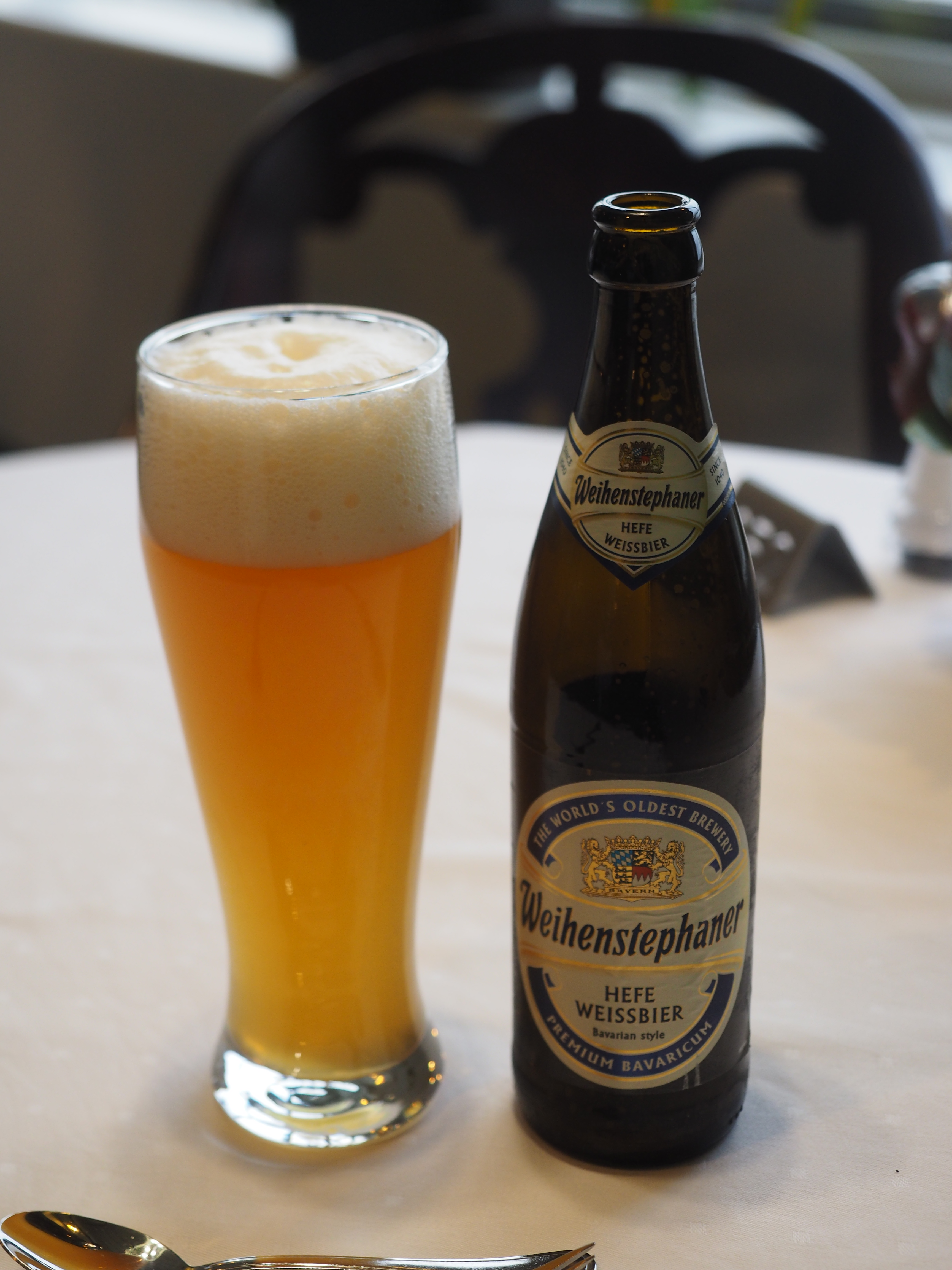 A bottle of Weihenstephaner Hefe Weissbier poured into a glass, served at a restaurant aboard Viking Mariella.